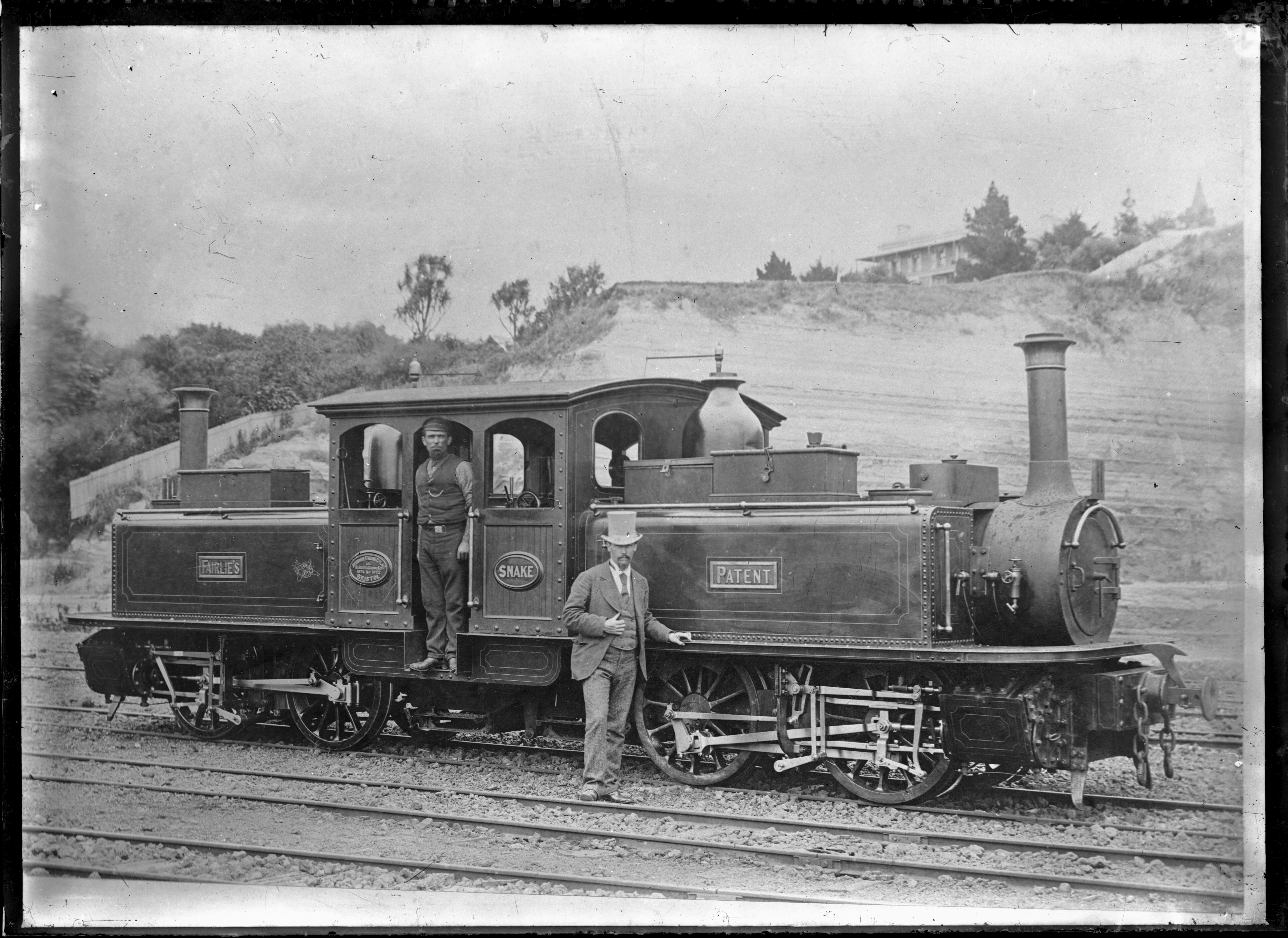 'Snake', a Fairlie's Patent, B class steam locomotive, B 238, and two unidentified men alongside. Photograph taken between 1874 and 1892 (by Albert Percy Godber?) probably in the Auckland Region.